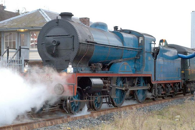 85 taking on water at Ballymena Station 85 taking on water at Ballymena Station, before proceeding to Coleraine with the RPSI's Coleraine Shopper's Special.